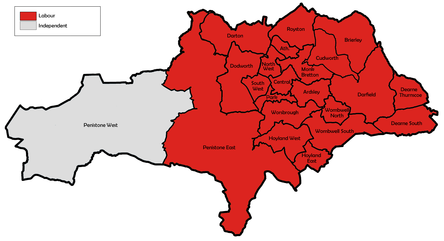 Ward map of Barnsley council with political colouring for the 1998 council election.